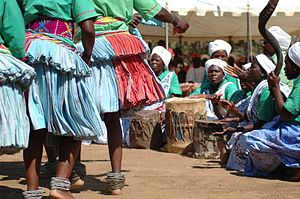 Tsonga people Dance